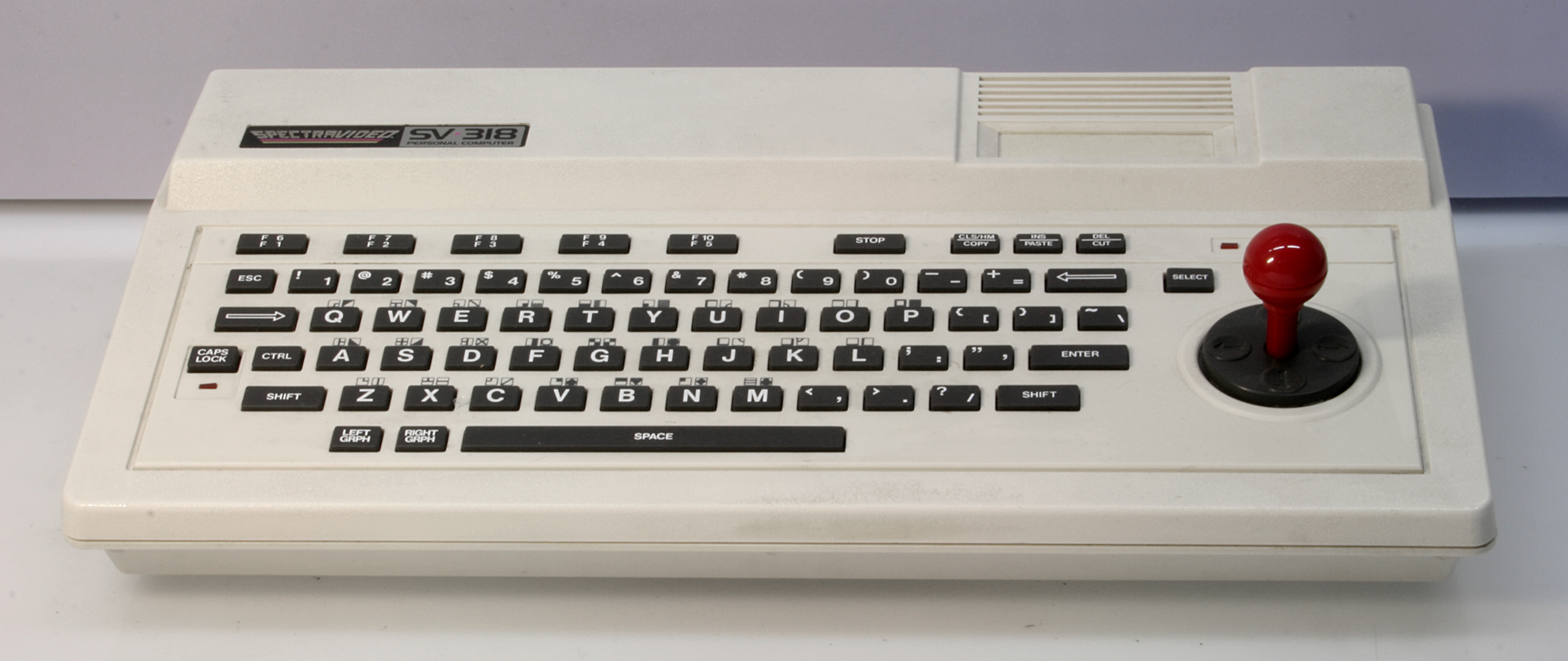 Photo of a Spectravideo SVI-318 home computer, taken with a Canon EOS 350D and an EFS 18-35mm